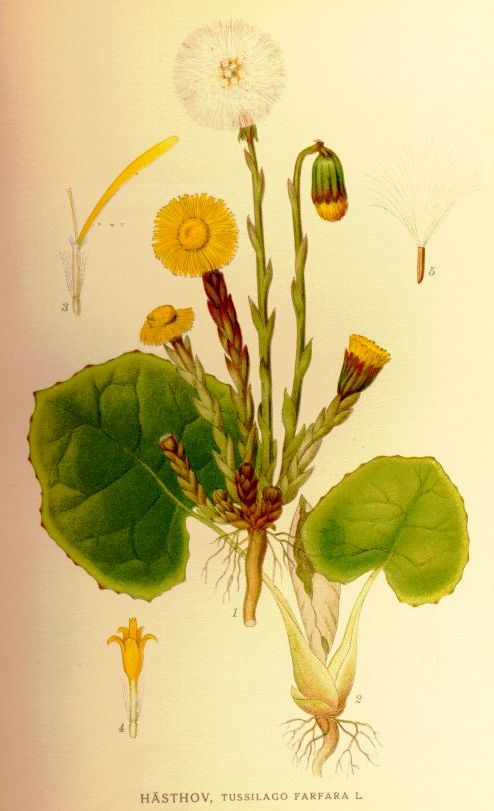 Tussilago farfara 1. the plant in the spring 2. the plant in the summer 3. enkönad (female) kantblomma (6/1) 4. enkönad (male) mittblomma (6/1) 5. fruit (5/1).